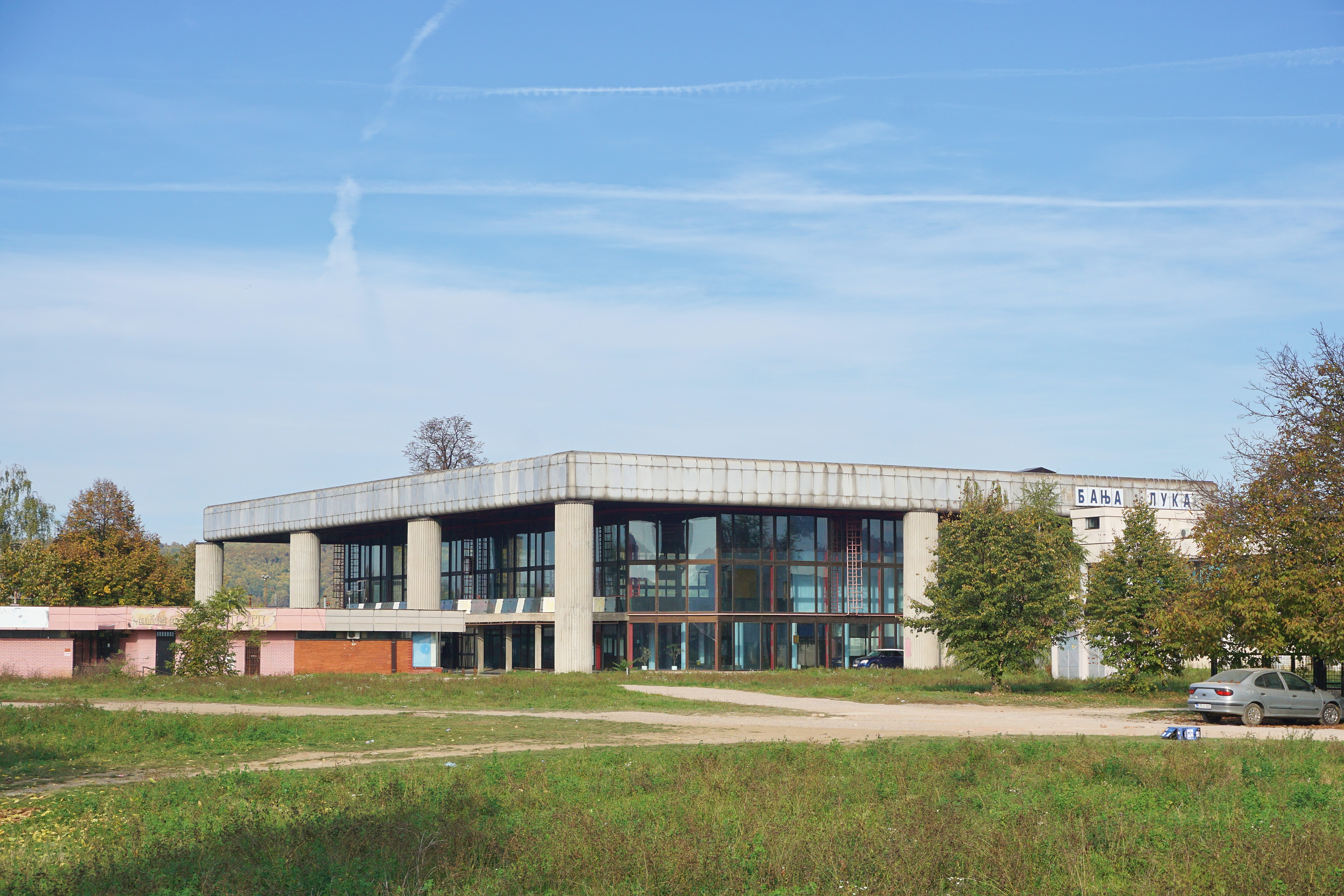 Banja Luka railway station